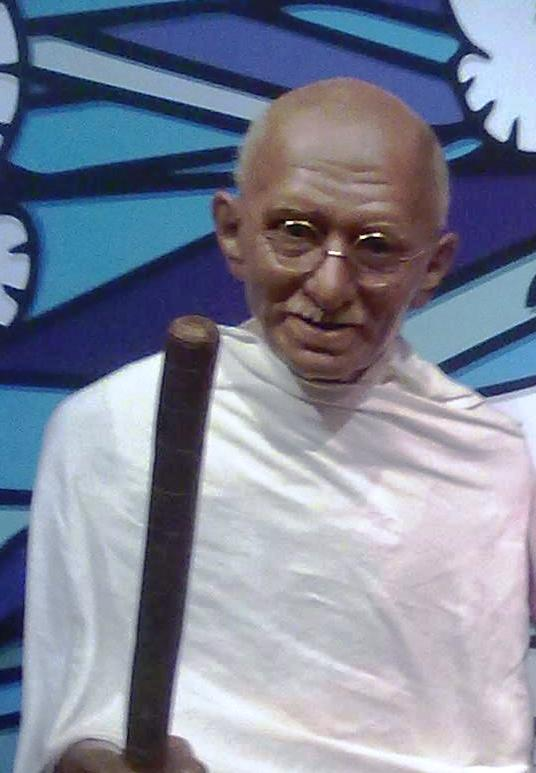 Mohandas Karamchand Gandhi Wax Statue in Madame Tussauds London